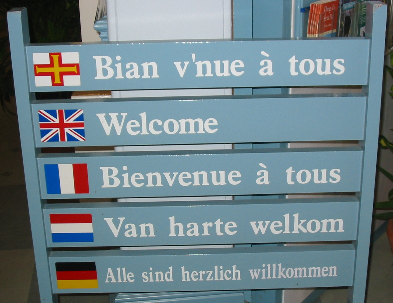 Multilingual welcome sign (Guernésiais on top) at Guernsey tourist information